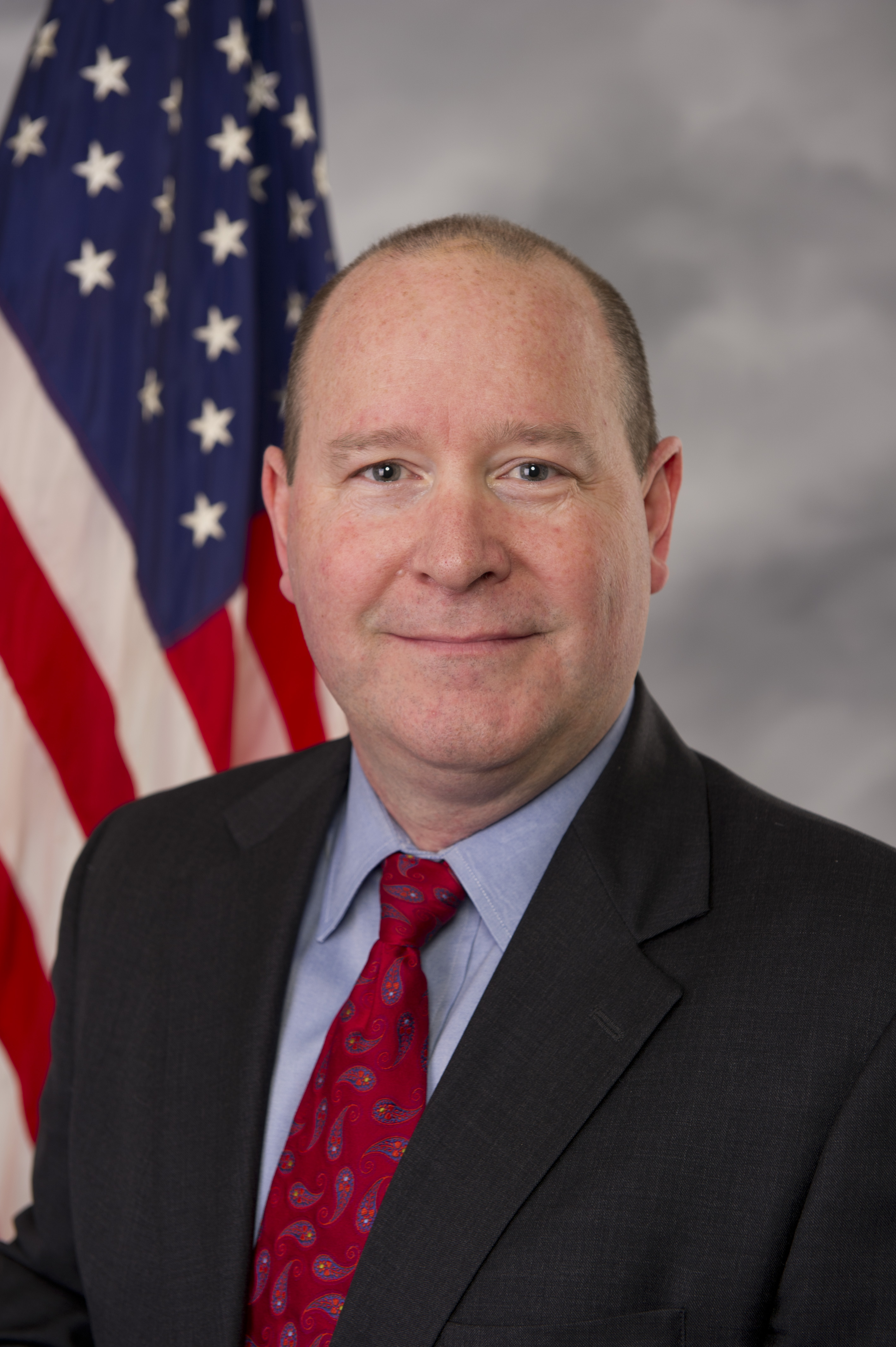 Larry Bucshon, member of the United States Congress.